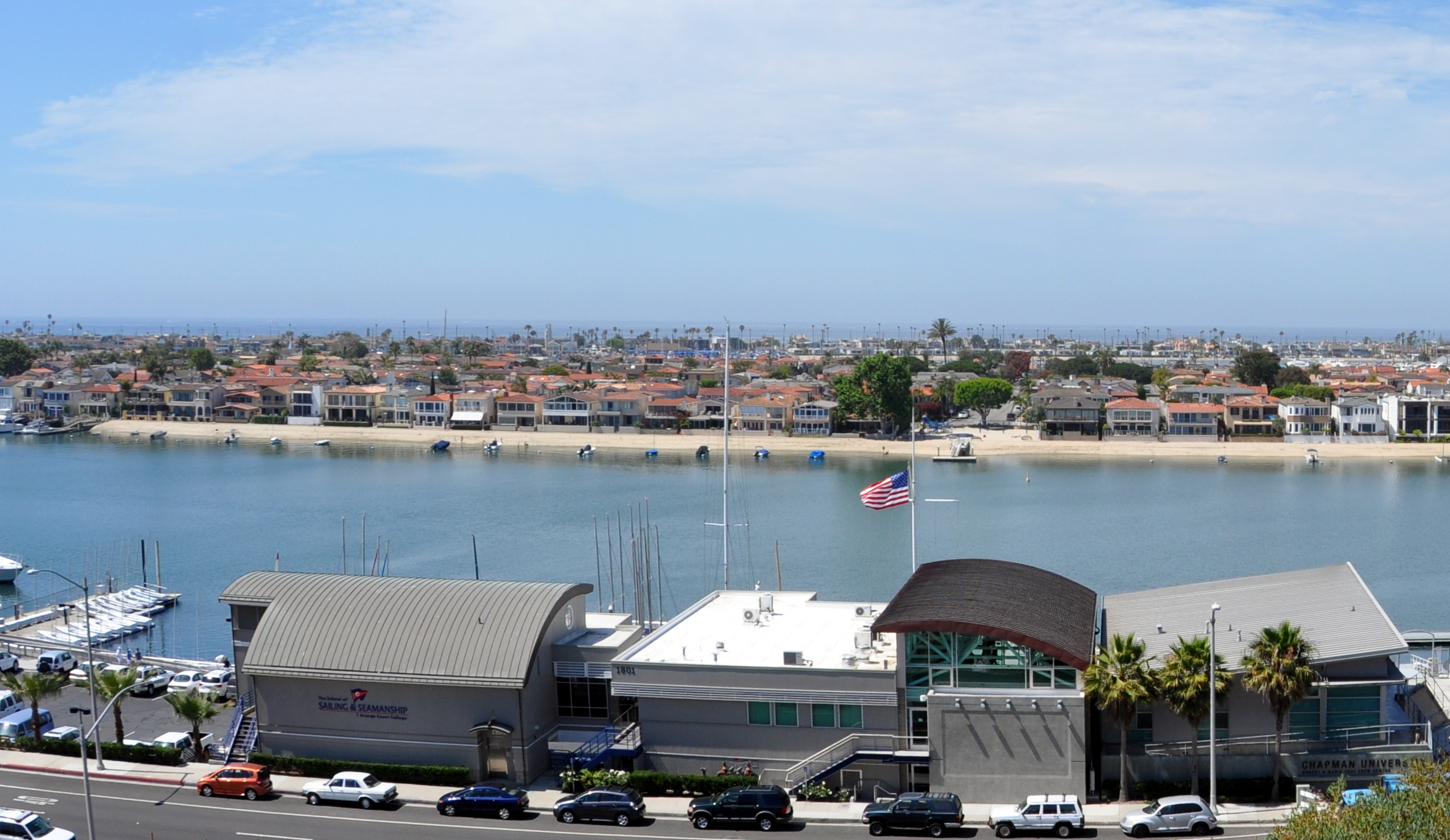 Sailing_Crew_Base